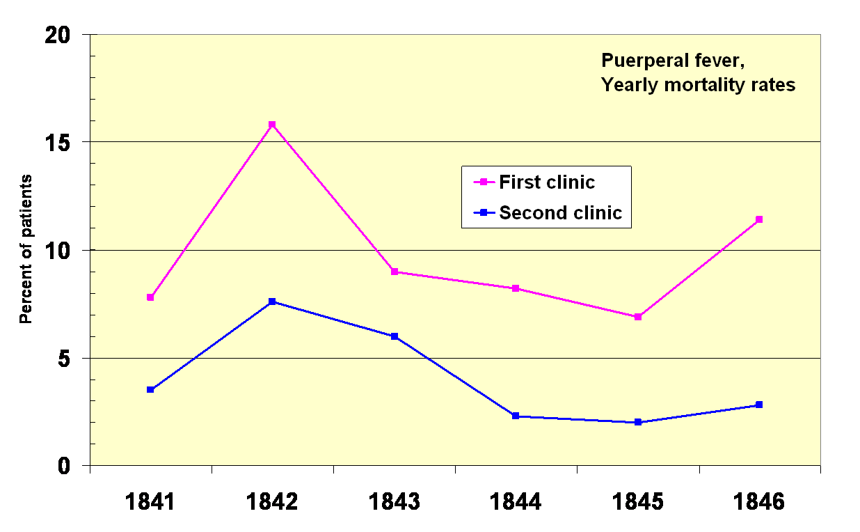 Puerperal fever yearly mortality rates for the First and Second Clinic at the Vienna General Hospital 1841-1846. The First Clinic evidently has the larger mortality rate.